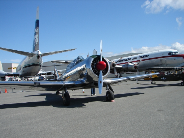 T-6 parked in front of the Alaska Aiviation Museum during the Salmon Bake and Fly-By in June 2012